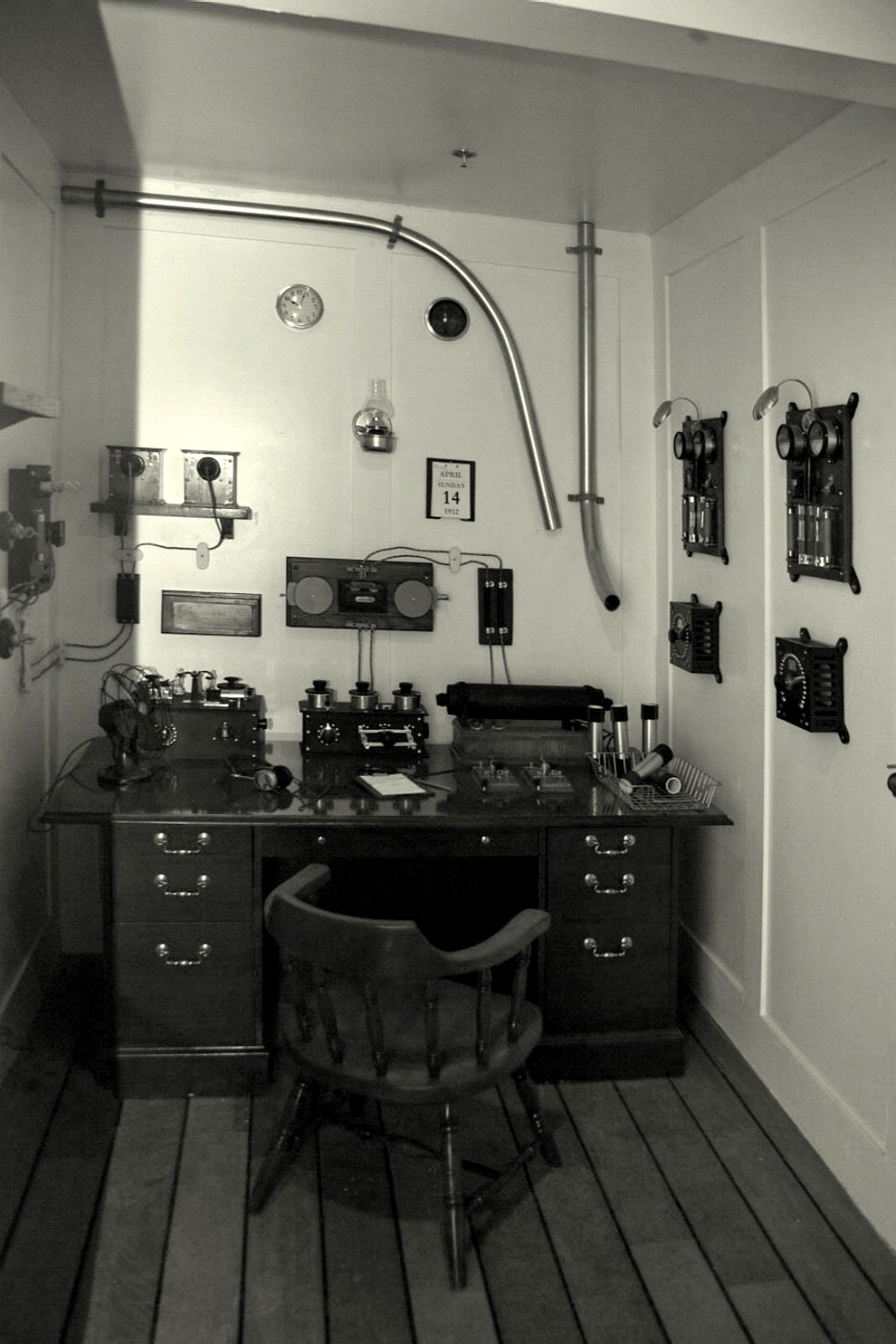 A replica display at an exhibition which depicts the Marconni telegraph equipment installed in Titanic’s wireless room. This system was the ship's only link to the world and a popular means for passengers to send messages home.